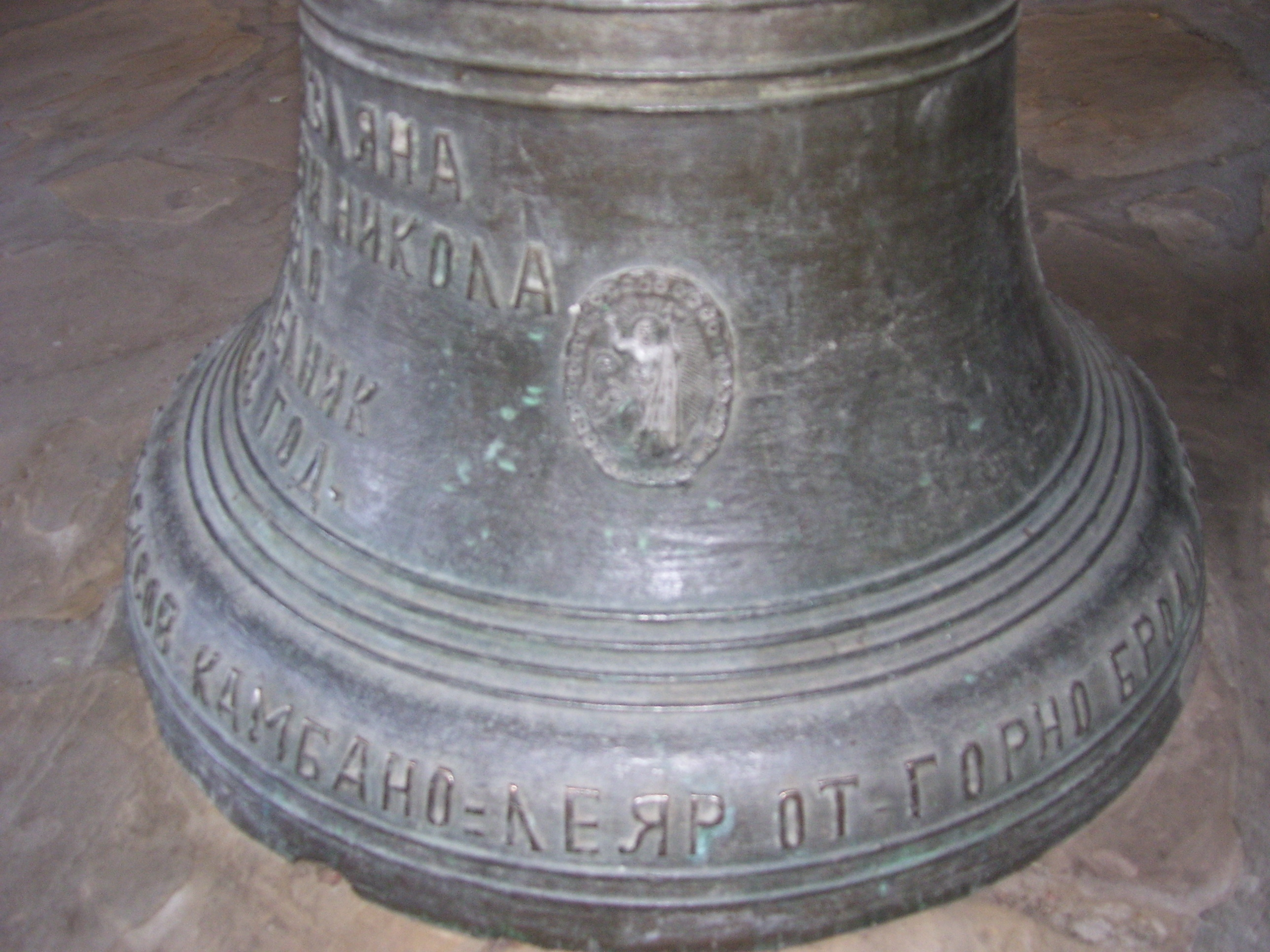 Zheravna Saint Nicholas Church Bell by Atanas Alexov from Gorno Brodi.